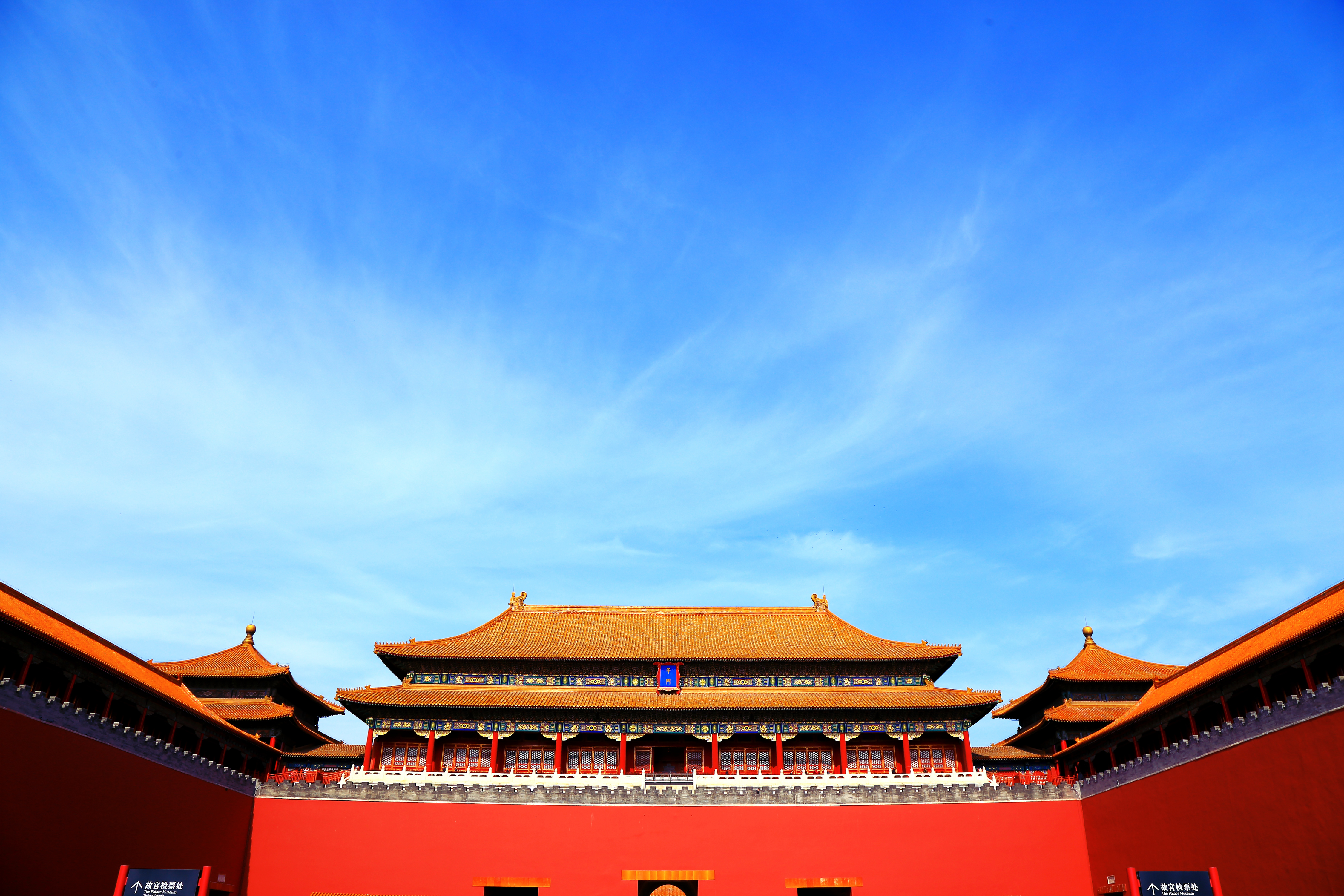 2015-10-24, view N, Meridian Gate, Palace Museum, Beijing